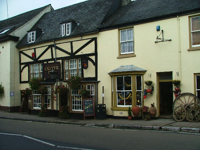 Exeter Inn, Modbury. Straddling the A379, midway between Plymouth and Kingsbridge. is the village of Modury, where the main street descends a steep hill to a cluster of shops, and the Exeter Inn, at its base where the main road then turns to the right/south to leave the village.